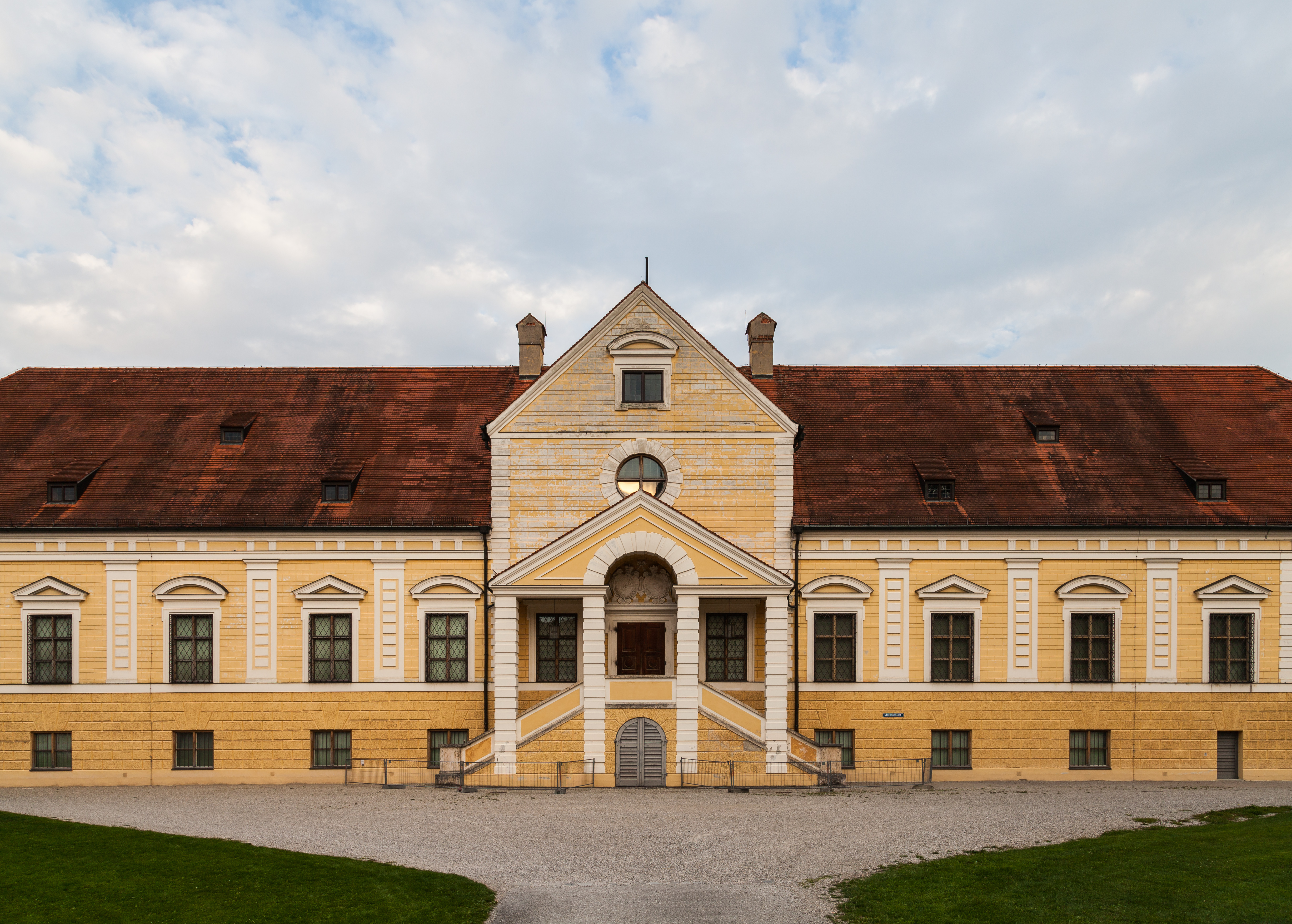 Old Schleissheim Palace, Oberschleissheim, Germany